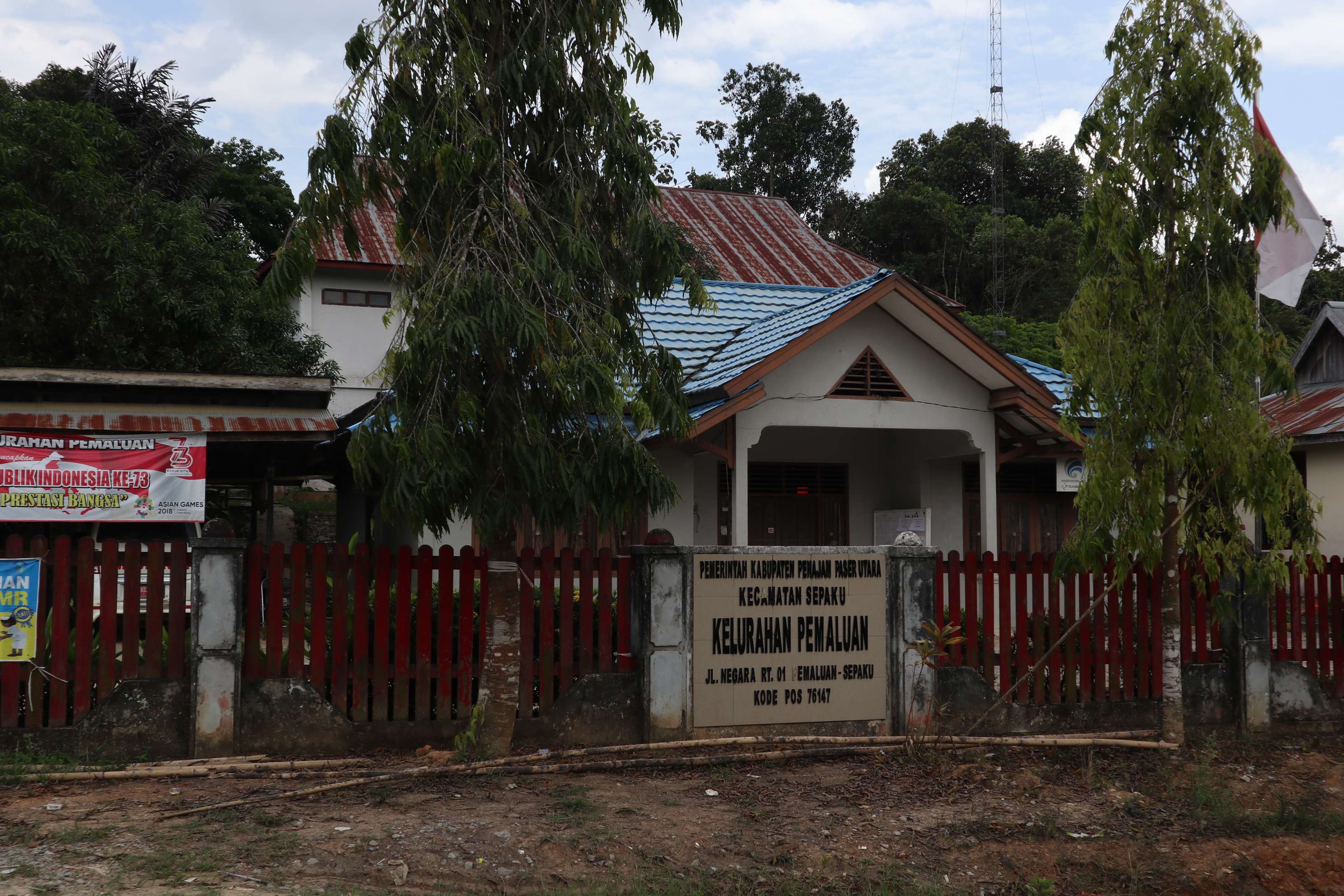 Pemaluan urban village office in Sepaku subdistrict, North Paser of Penajam Regency, East Kalimantan, Indonesia.